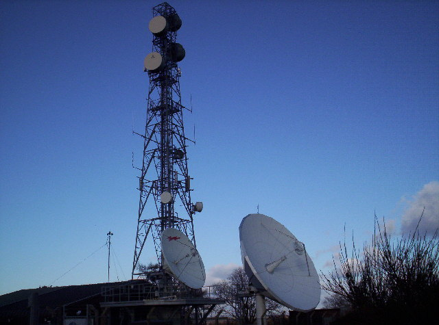 Cable and Wireless Mast and Dishes.